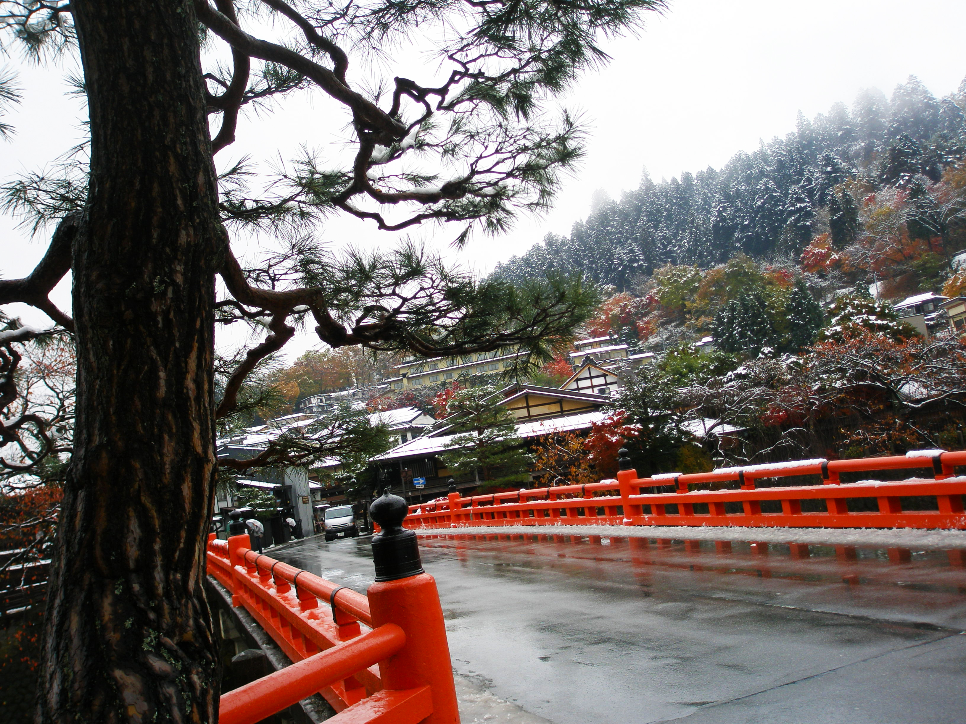 A snowy autumn day at Takayama's "Nakabashi" Bridge.